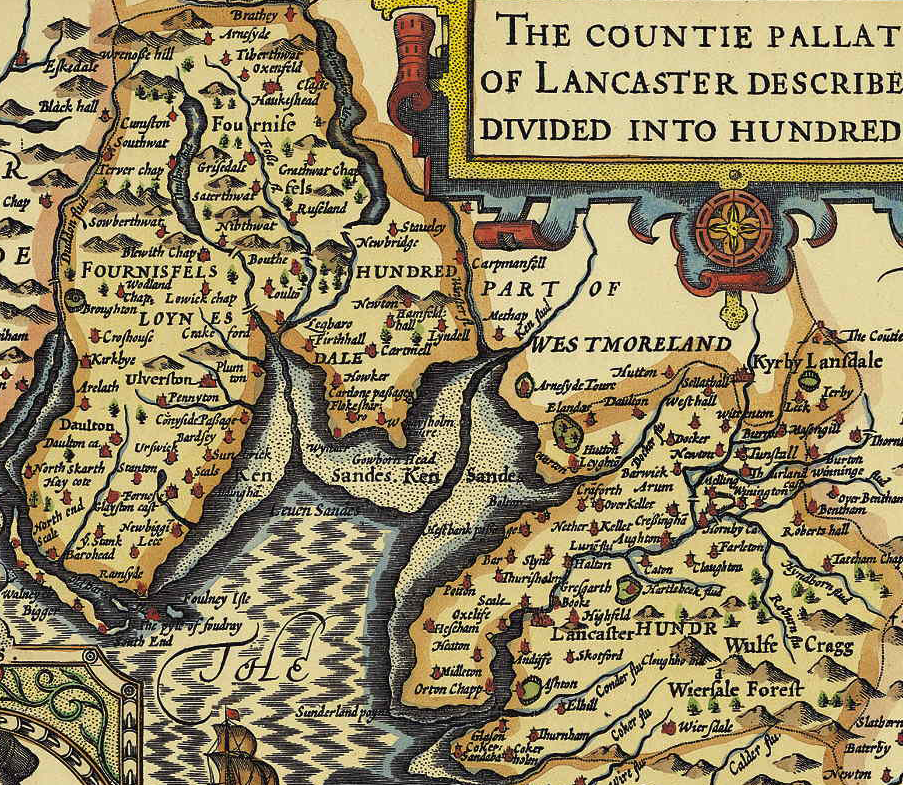 The Hundred of Lonsdale: John Speed's map of Lancashire is one of the earliest and shows towns and villages but no highways.